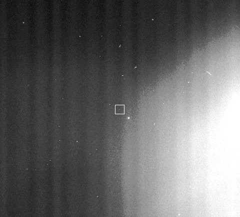 Cropped frame number 15 from animation Image:Methone.gif, from which Methone, a moon of Saturn was discovered. See the GIF file for original caption.